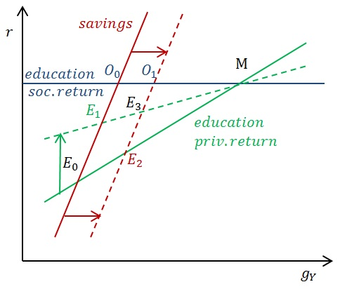 Uzawa-Lucas model, equilibrium and the effects of government subsidies